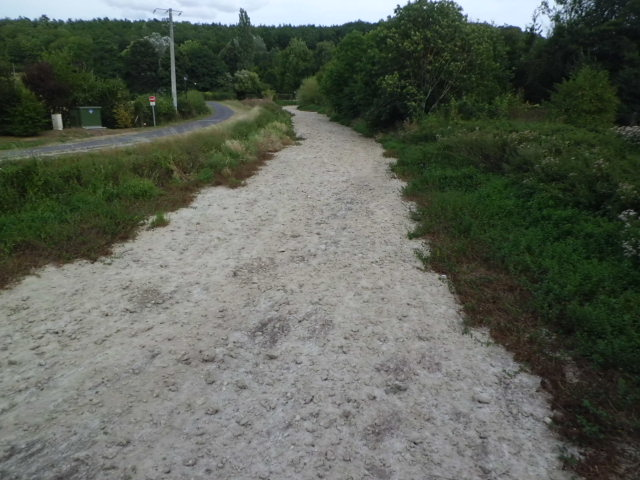 Disapearing of the Risle stream in summer 2012